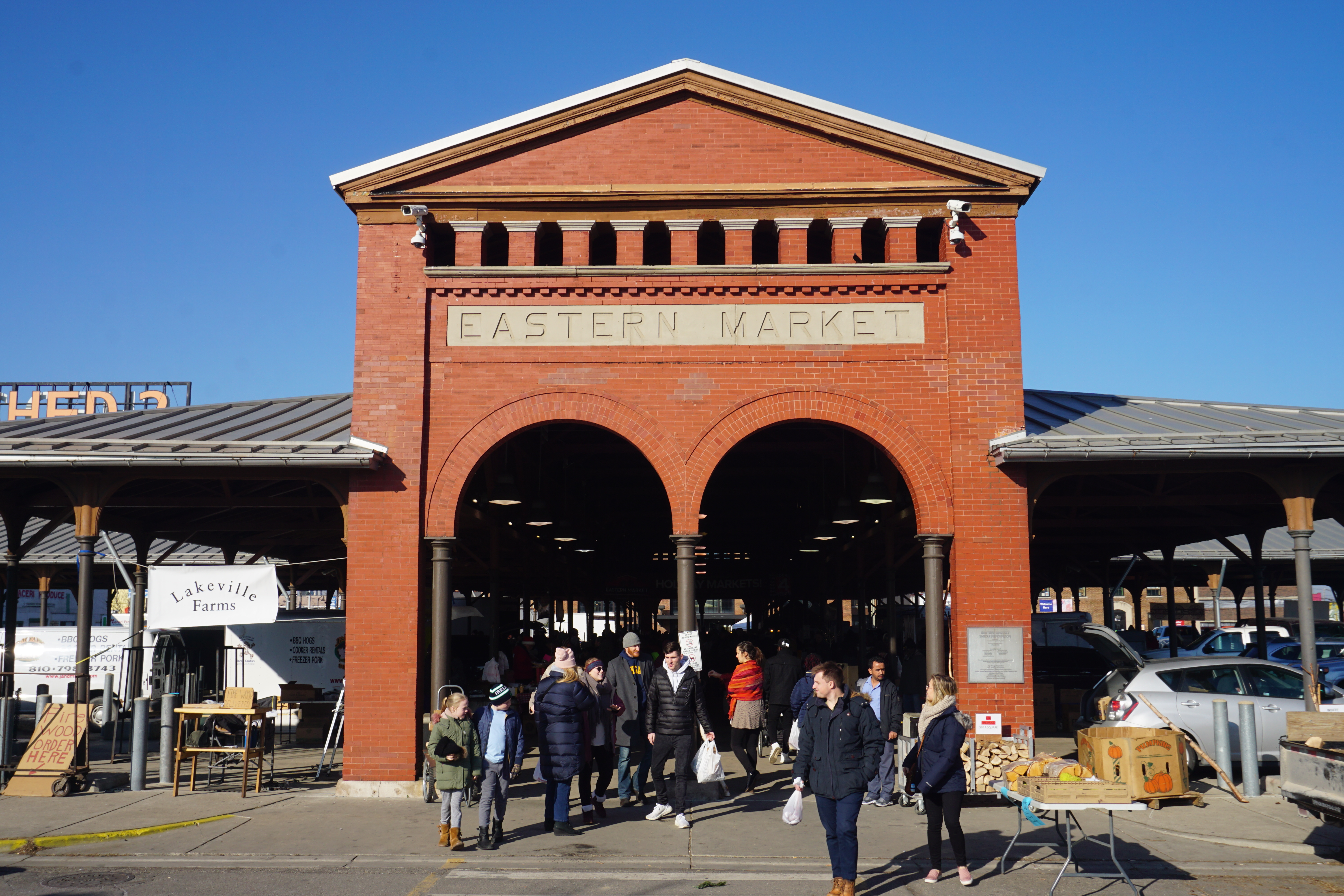 Shed 2 at Eastern Market in Detroit, Michigan (United States).